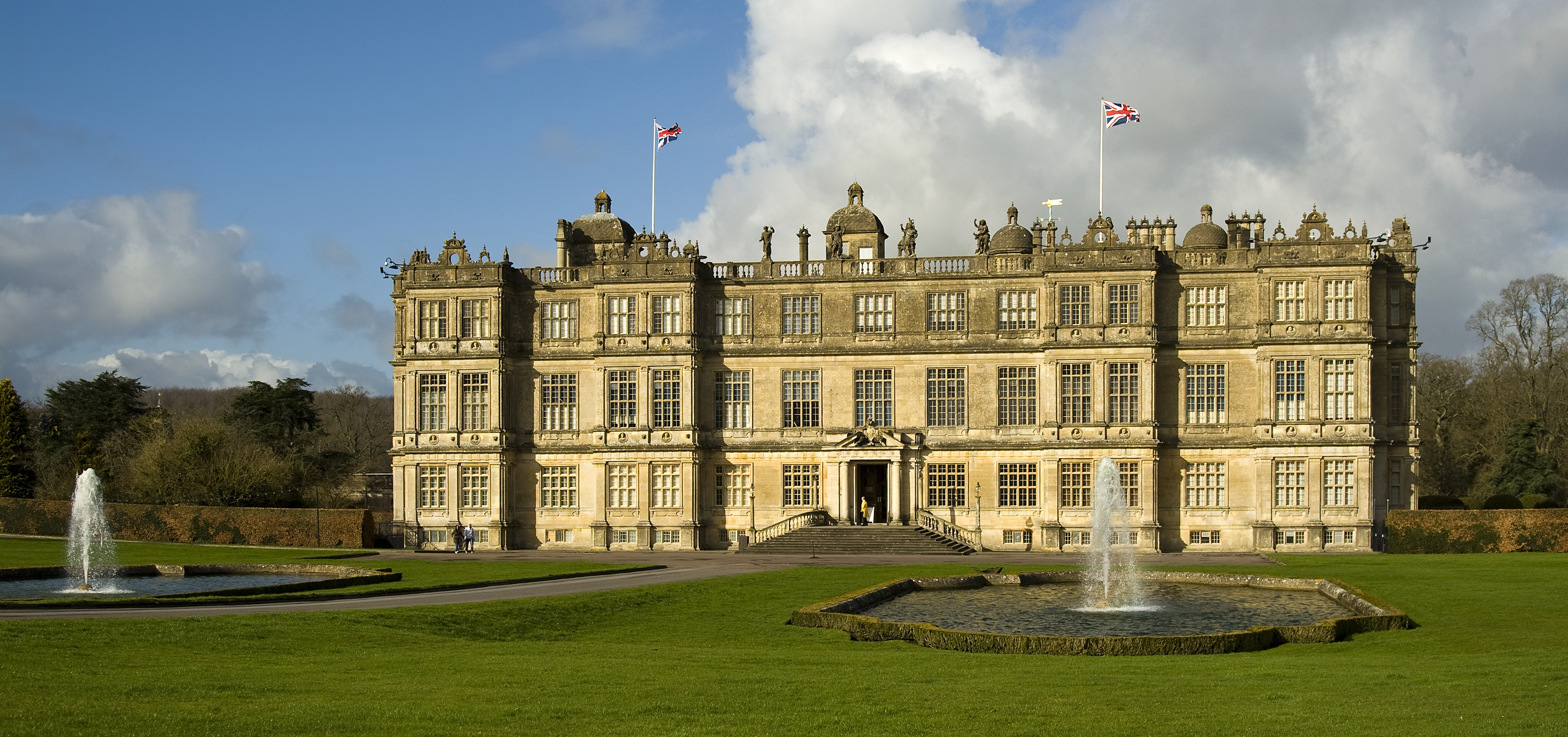 Longleat House is widely regarded as one of the finest examples of Elizabethan architecture in Britain. Construction began in 1567.